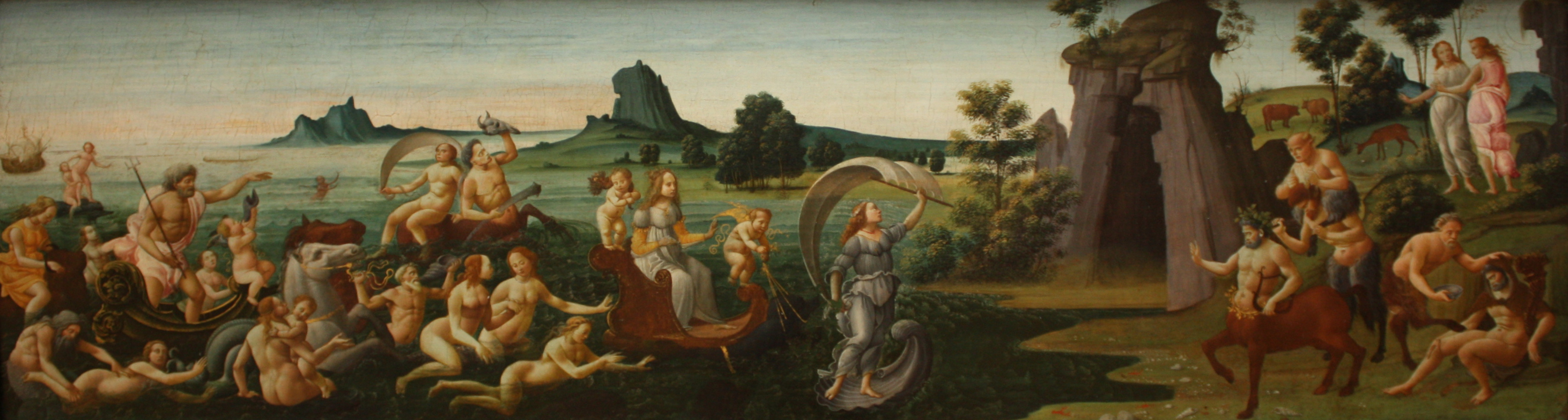 The Procession of Thetislabel QS:Len,"The Procession of Thetis"label QS:Lfr,"La procession de Thétis"